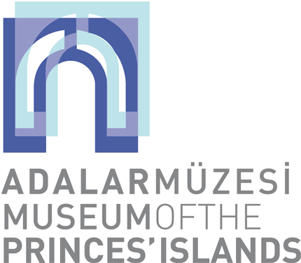 Logo of the Museum of the Princes' Islands